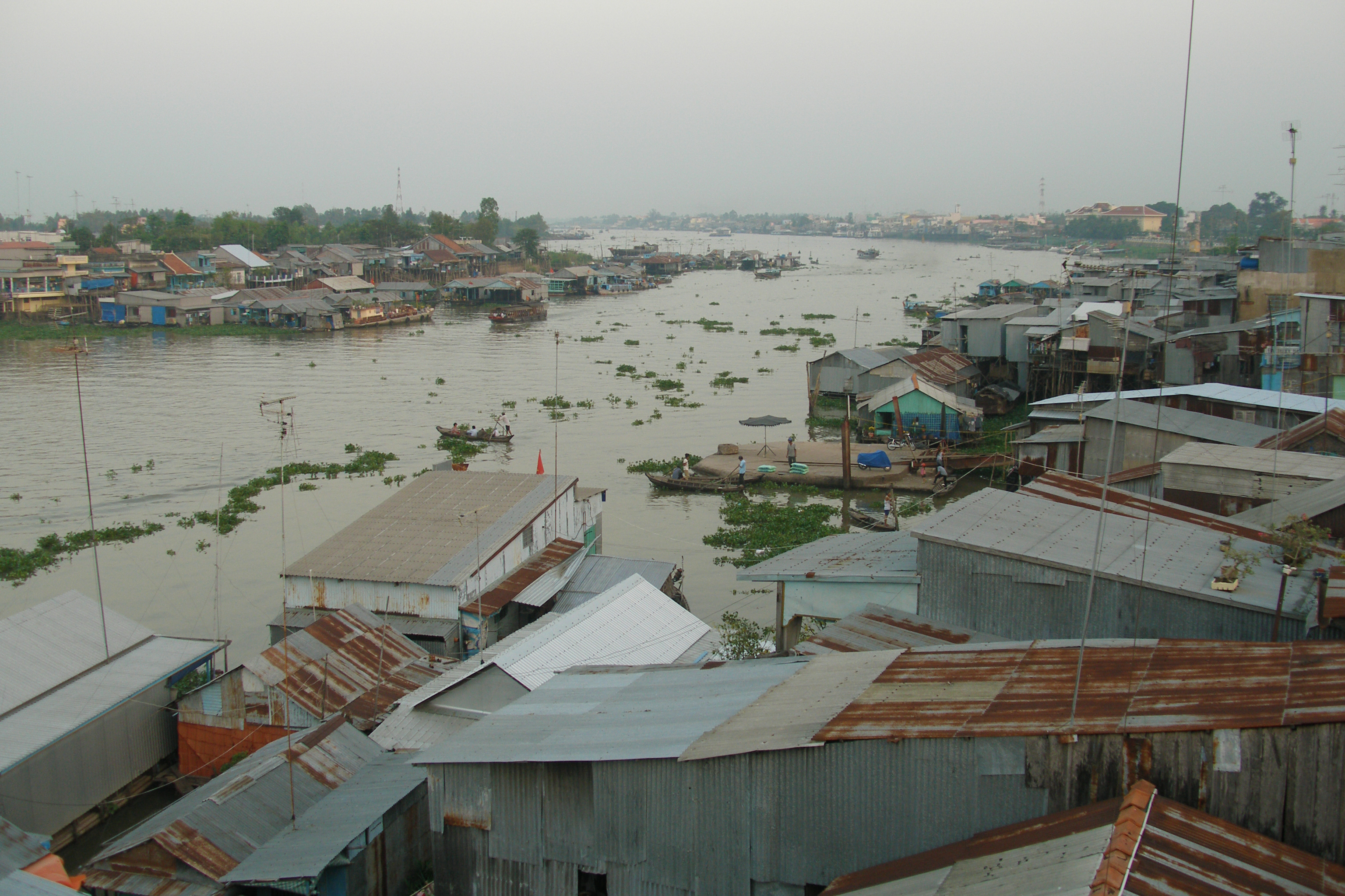 Vietnam, Châu Đốc, a city in the heart of the Mekong Delta bordering Cambodia.